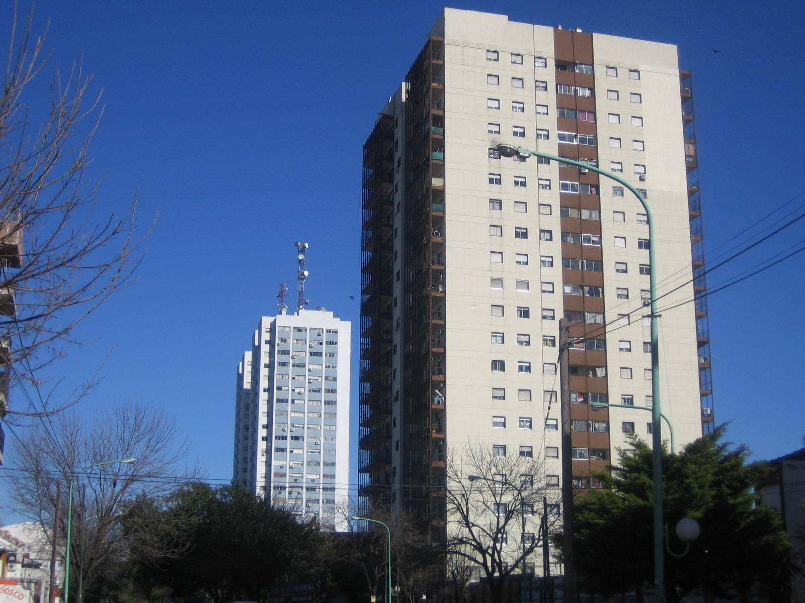 Ruiz Huidobro tower - Buenos Aires - Argentina